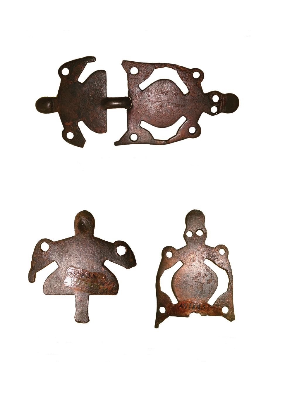 anthropozoomorphic pseudo-fibula